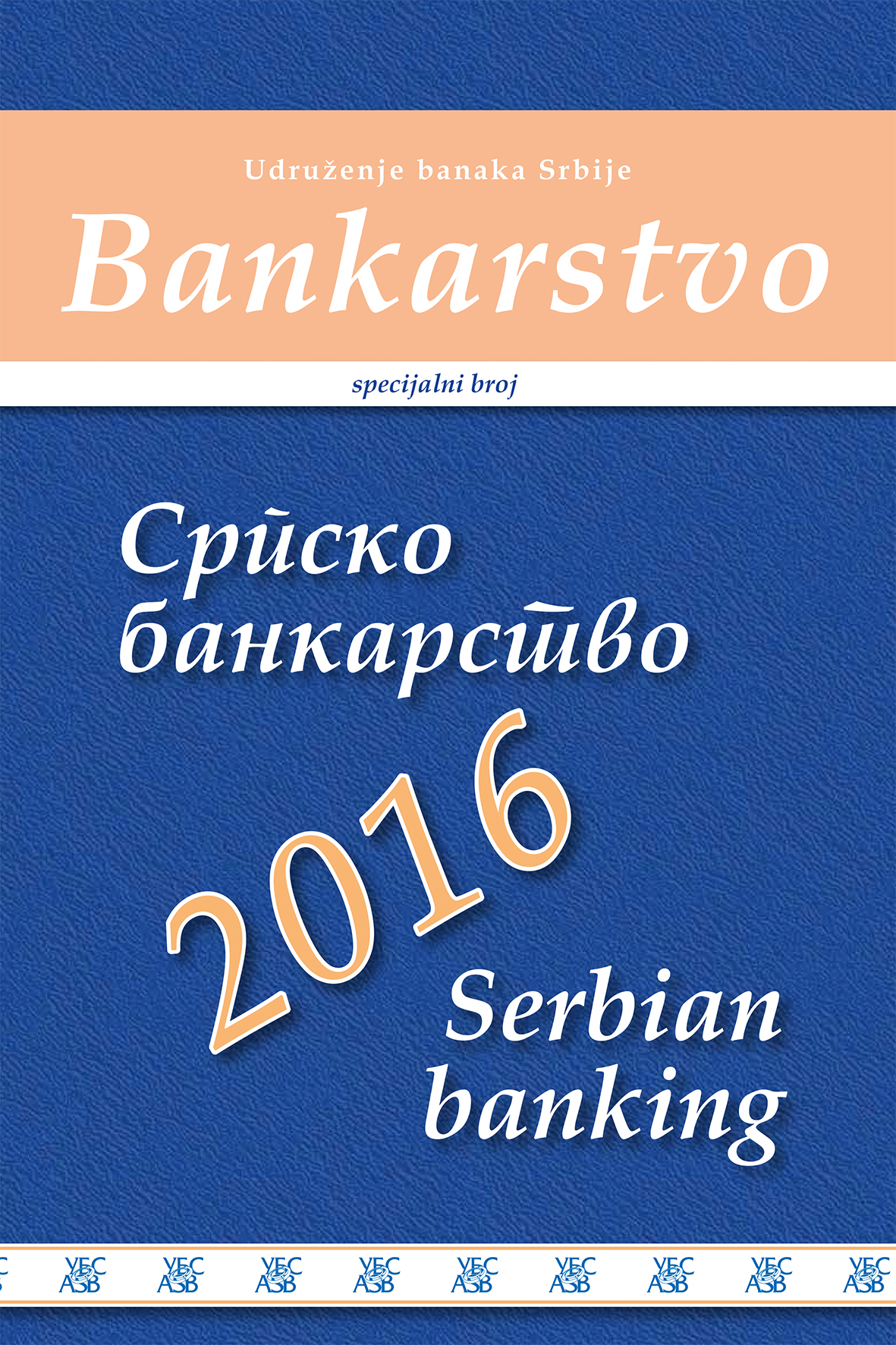 Journal Bankarstvo, Association of Serbian Banks, Special issue, 2016, Serbia